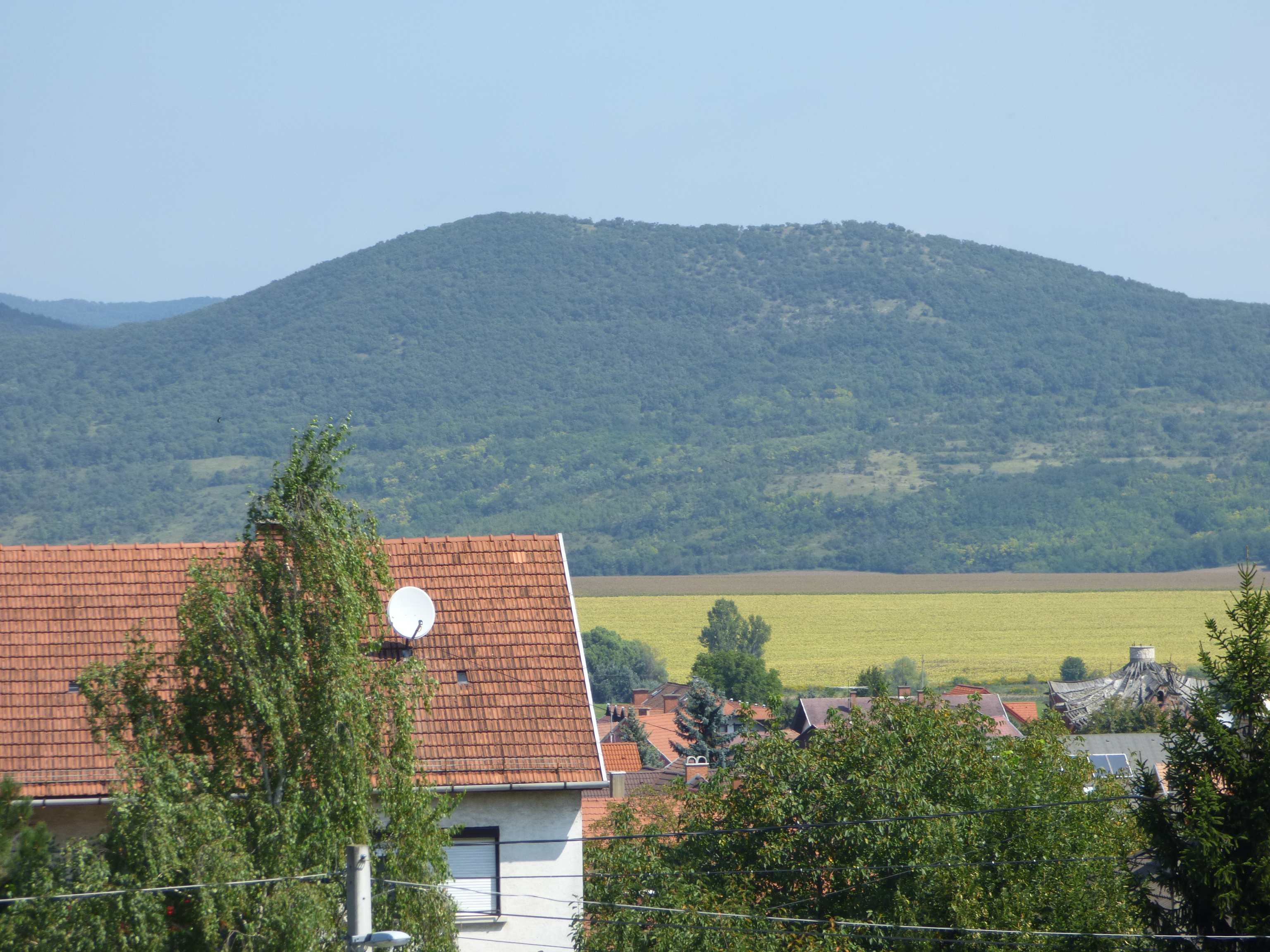 A Ziribár-hegy Szabadságliget megállóhely felől